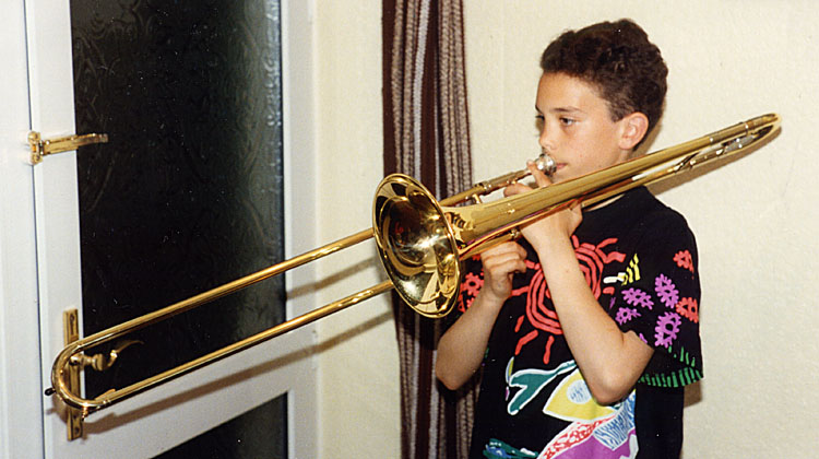 ”King” tenor trombone. Picture taken by Adrian Pingstone and released to the public domain. Bild:Zugposaune.jpg